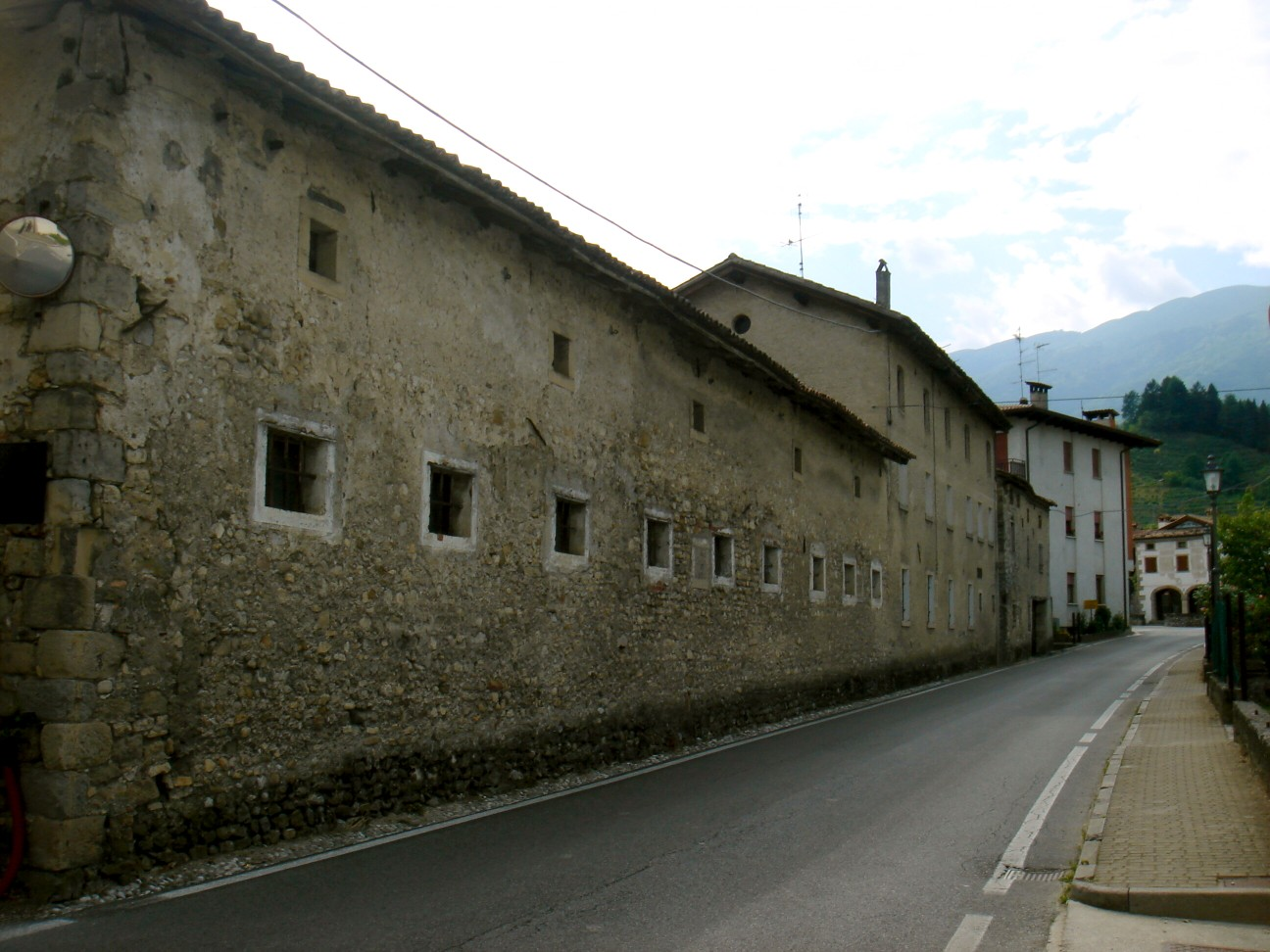 Campea: borgo